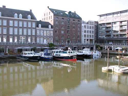 Bassin, Inner harbour in Maastricht, the Netherlands